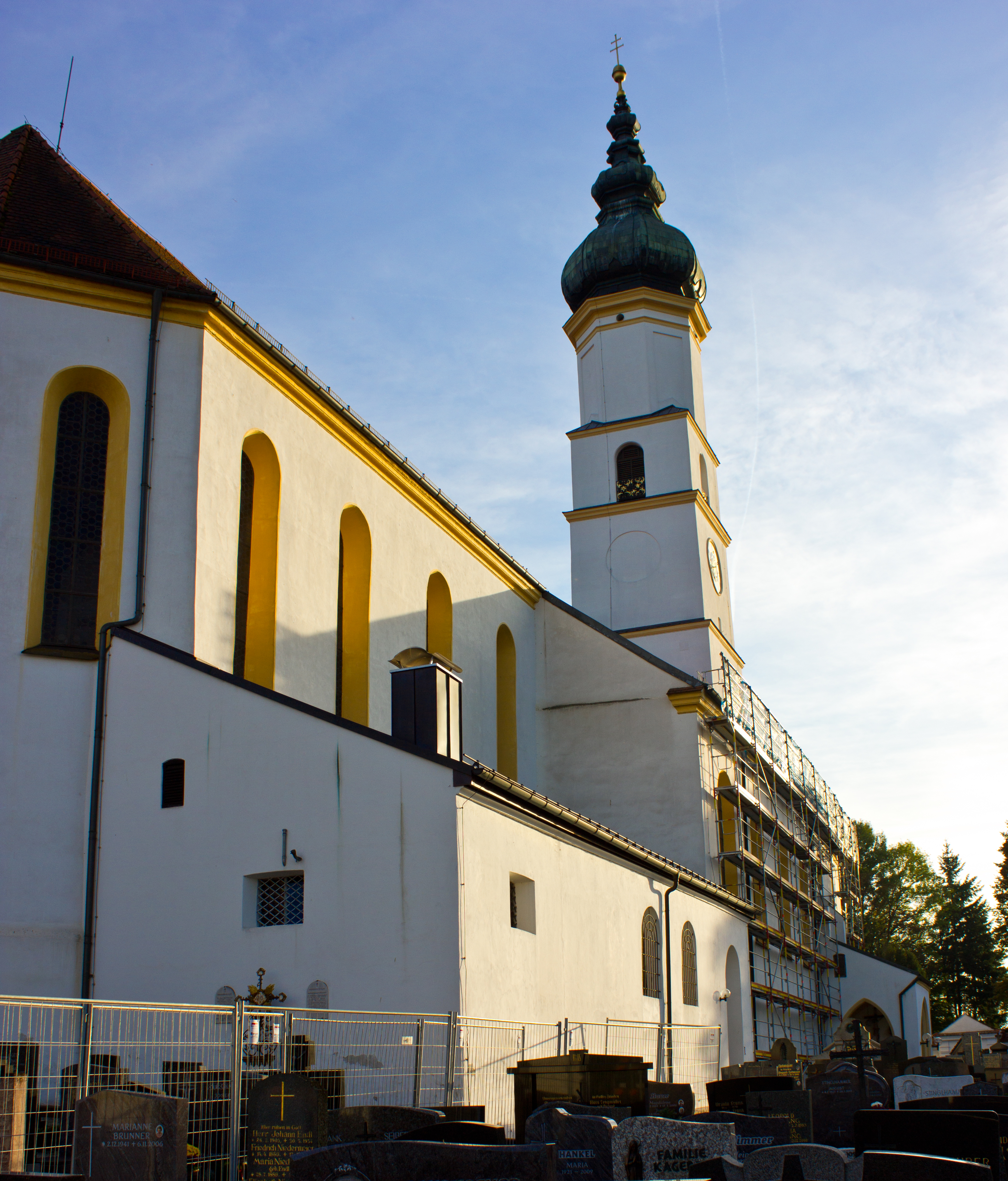 This is a photograph of an architectural monument.